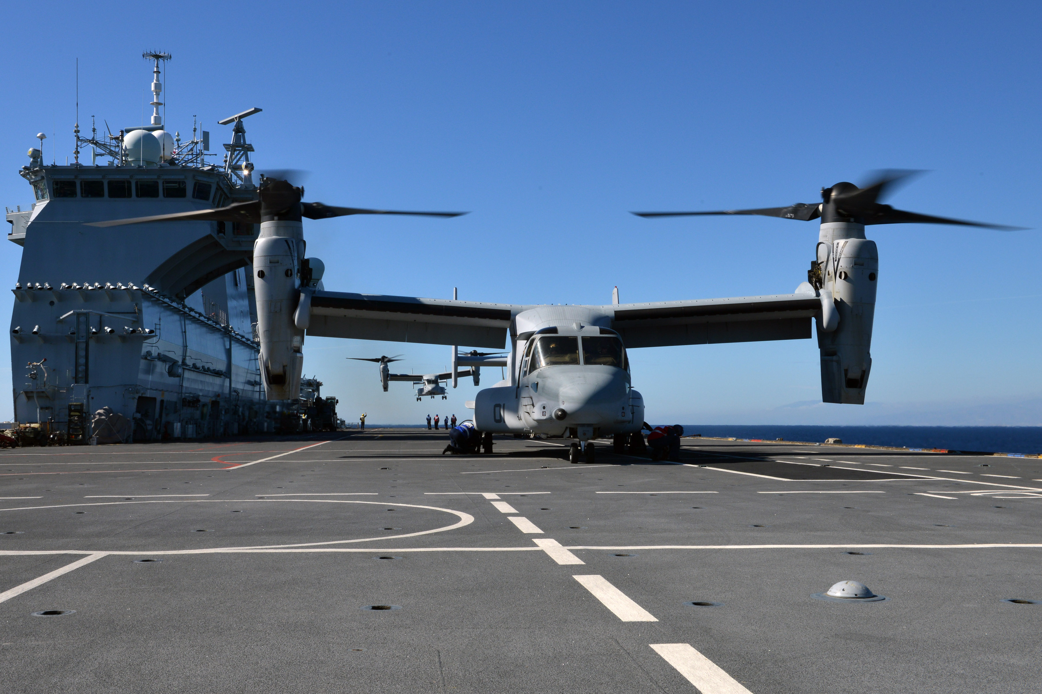 US Marine Corps (USMC) MV22s onboard HMS OCEAN to pick up USMC and Royal Marines who will be conducting an overnight amphibious assault in conjunction with HMS BULWARK during Trident Juncture 15.